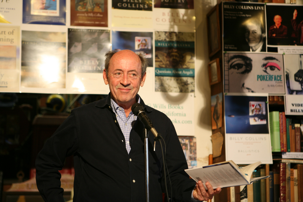 Billy Collins at D.G. Wills Books, La Jolla, San Diego